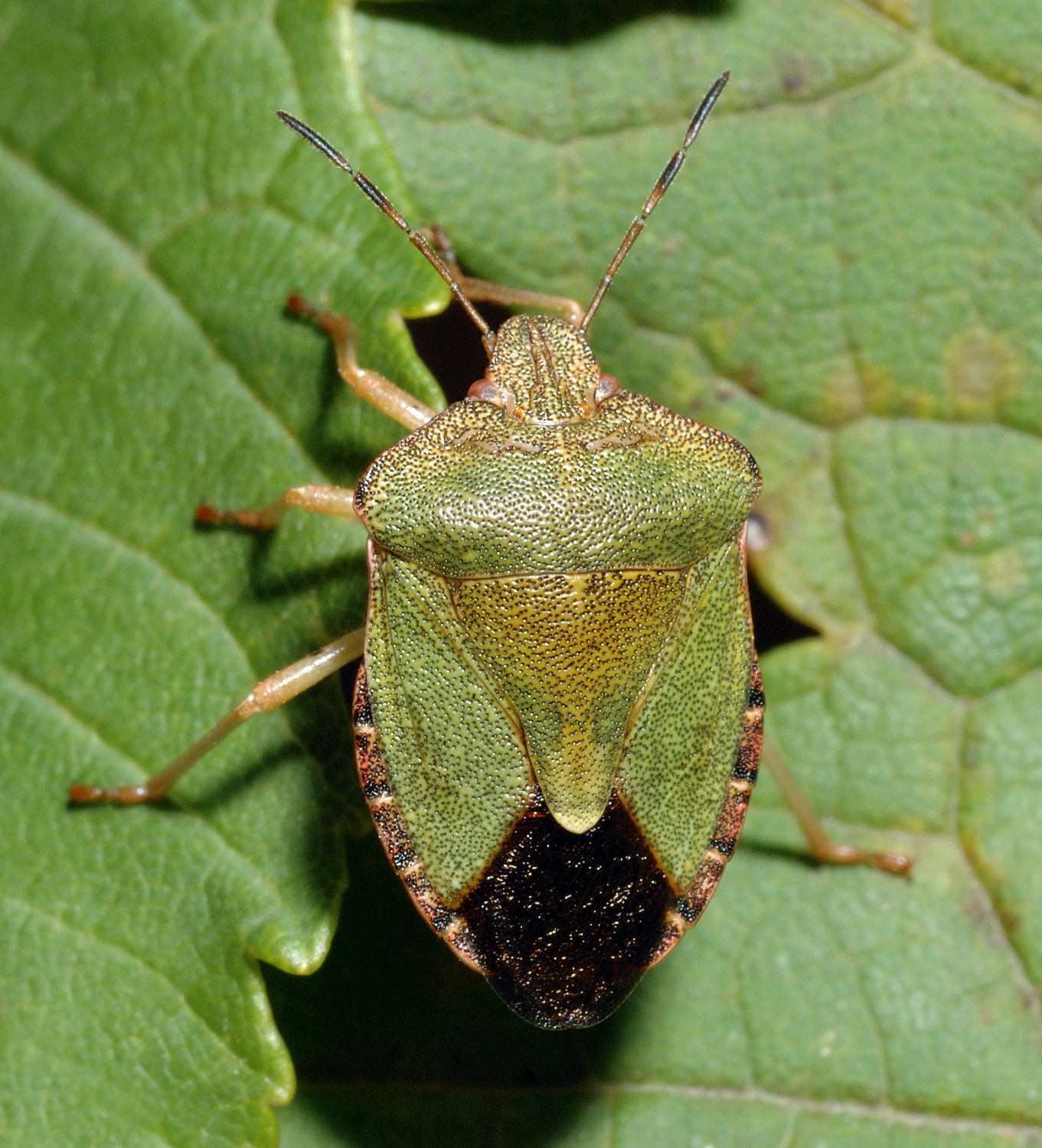 This image shows a Green shieldbug (Palomena prasina). Thanks to Olei, Mbc and Doc Taxon for identifying this animal.